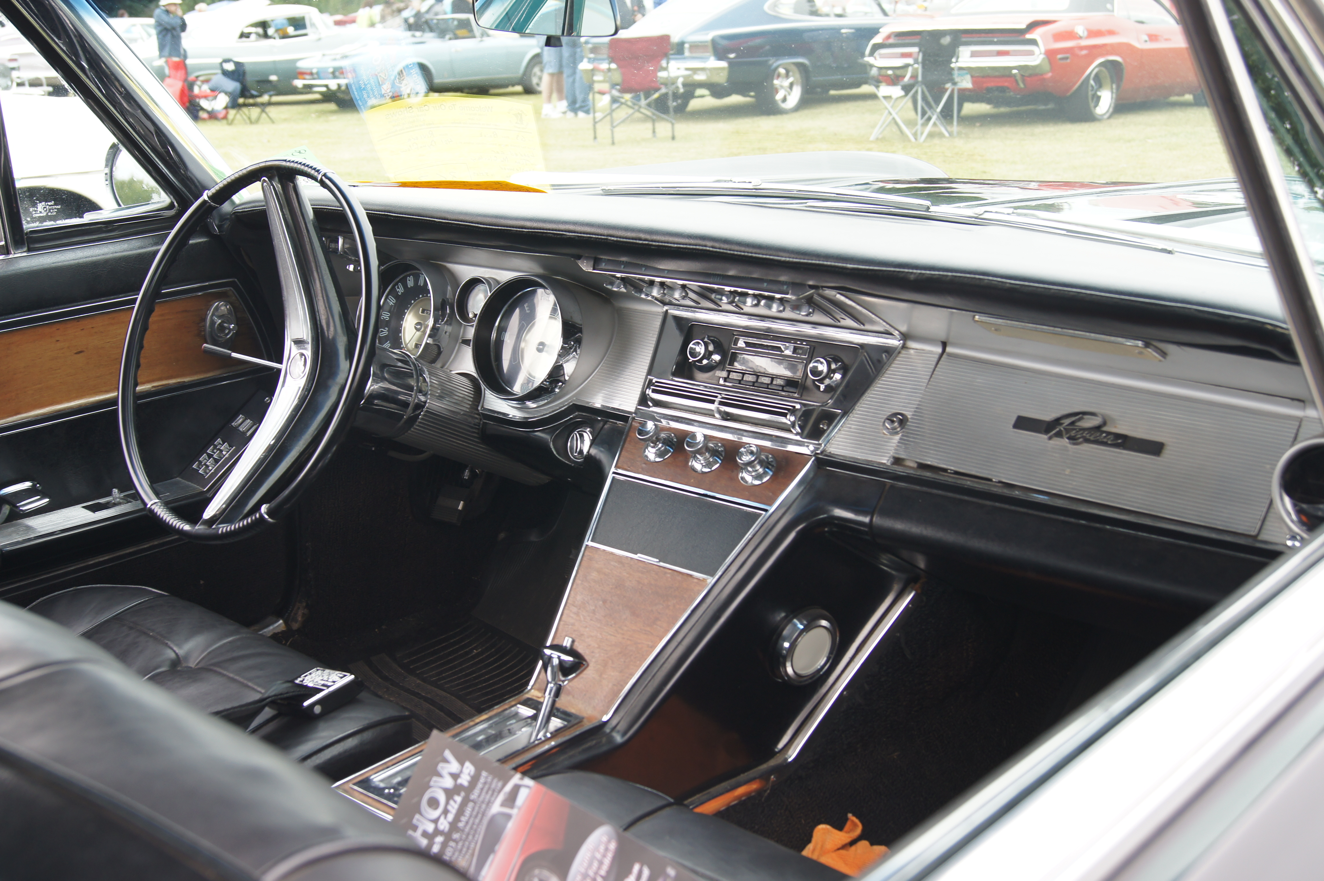 North Star Chapter Studebaker Drivers Club 13th Annual Labor Day Car Show September 2, 2013 Blacksmith Lounge Hugo, MN More Car Pictures